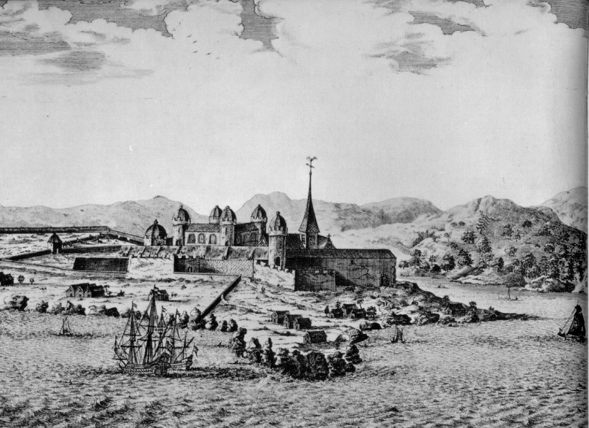 View of Elmina Castle in 1668, with European shipping in foreground and African houses/town shown in left hand corner and in various areas around the fort.